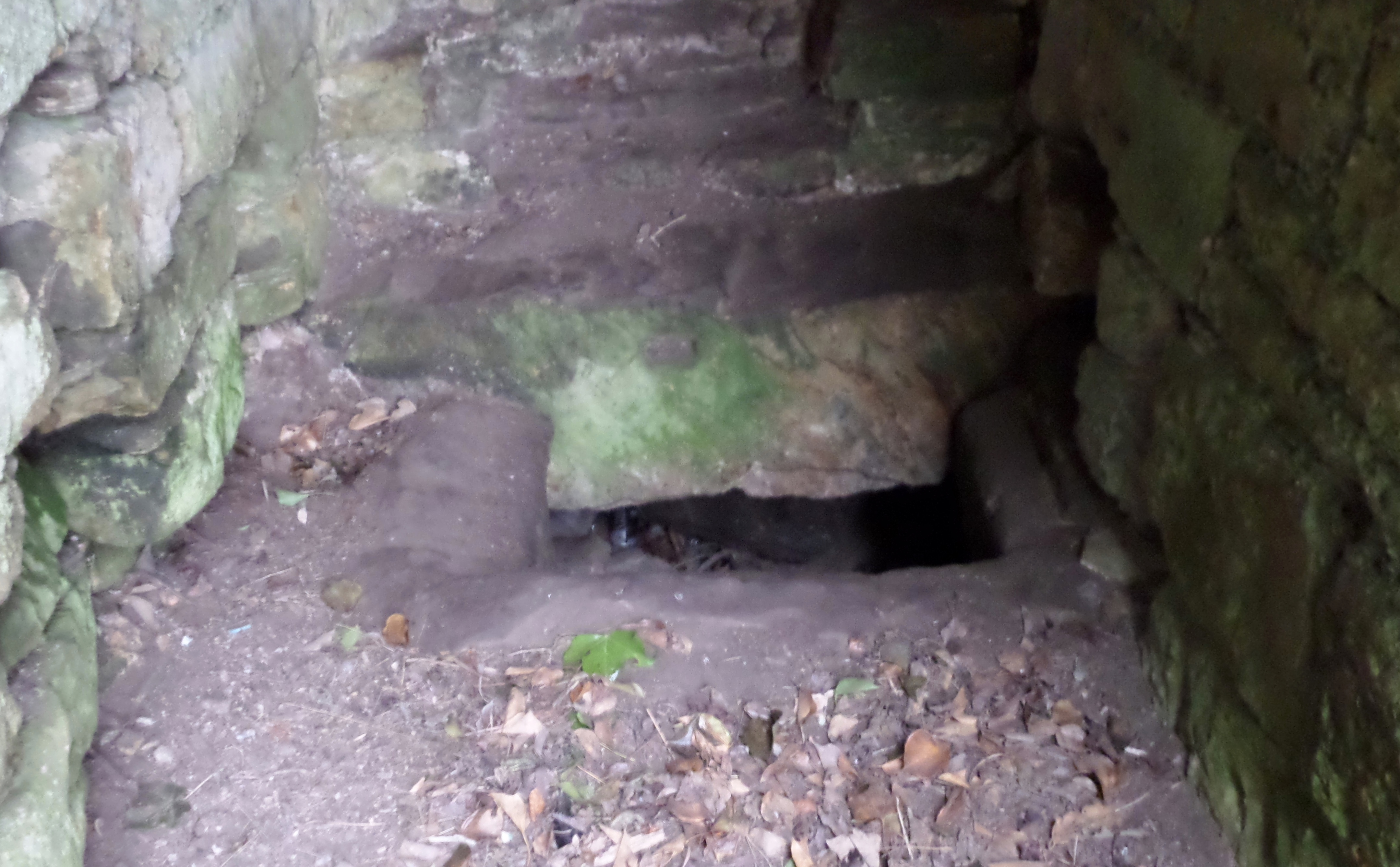 The 'starving pit' or dungeon entrance, Kilbirnie Castle keep, North Ayrshire, Scotland.